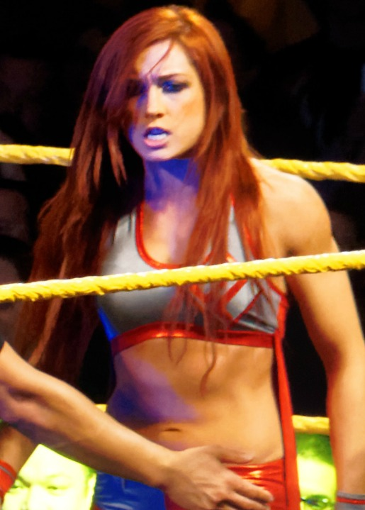 Becky Lynch at the ring before a match during an NXT Live event in March 2015.